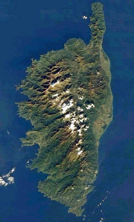 Satelite image of Corse